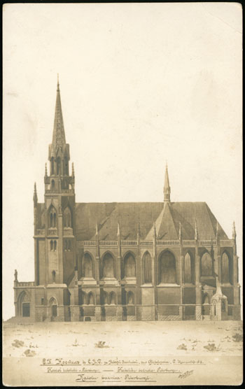 Saint Petersburg (Russia), Sacre Coeur Church